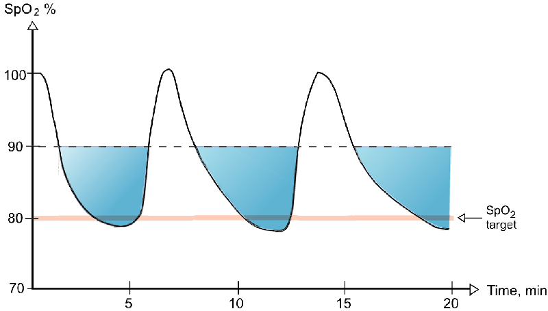 Hypoxic Training Index graph explaining how hypoxia dosage delivered during Intermittent hypoxia therapy or training (altitude training) is calculated